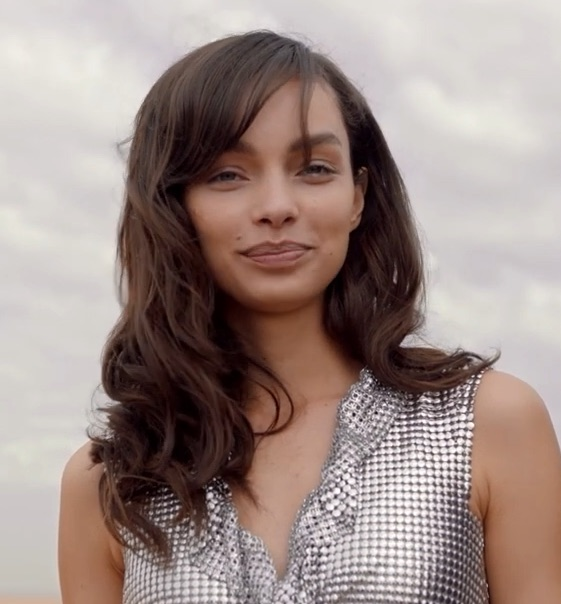 Fashion model Luma Grothe in Paco Rabanne (brand) video from May 2019